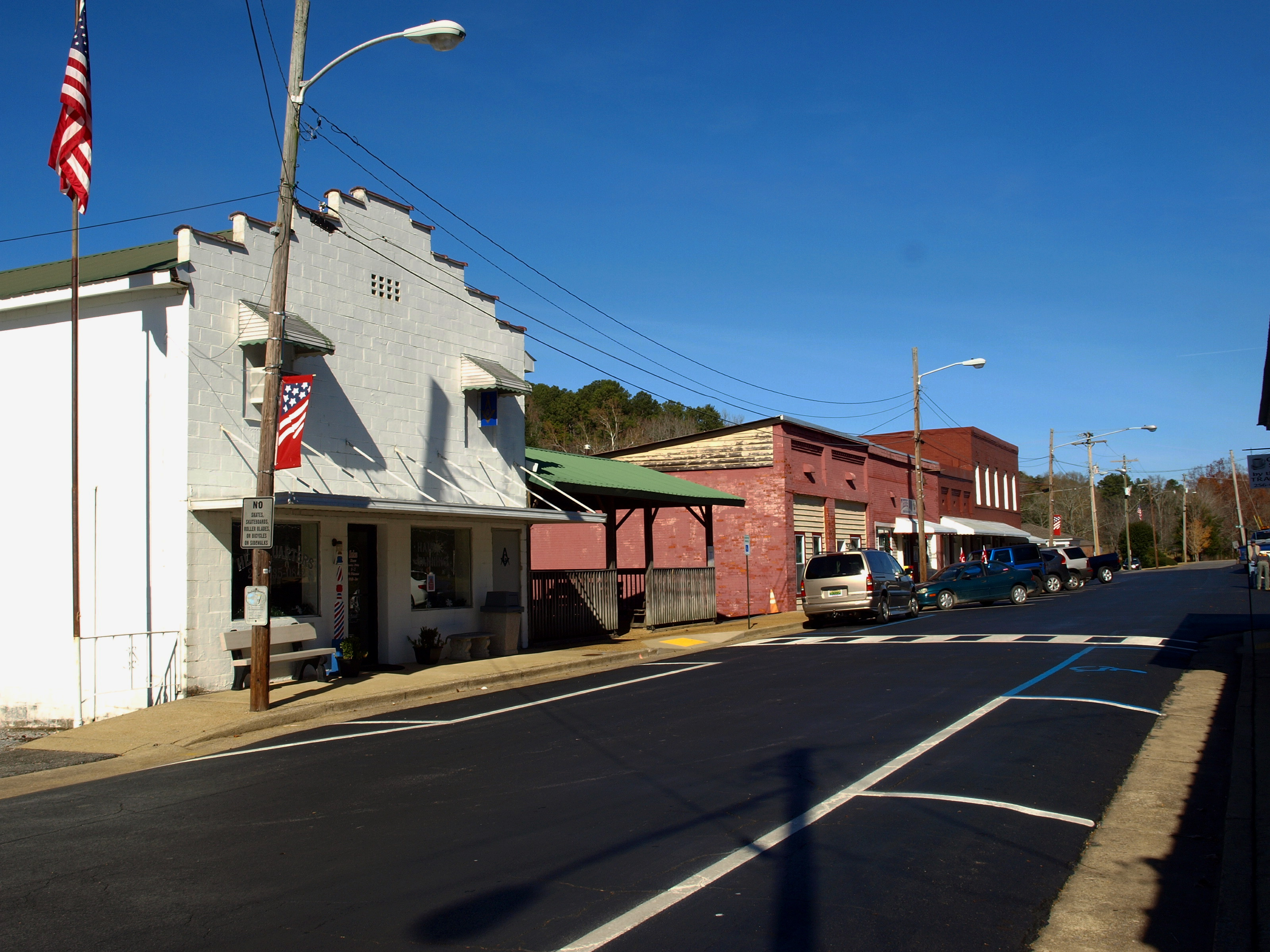 Buildings on Commerce Avenue in Valley Head, Alabama